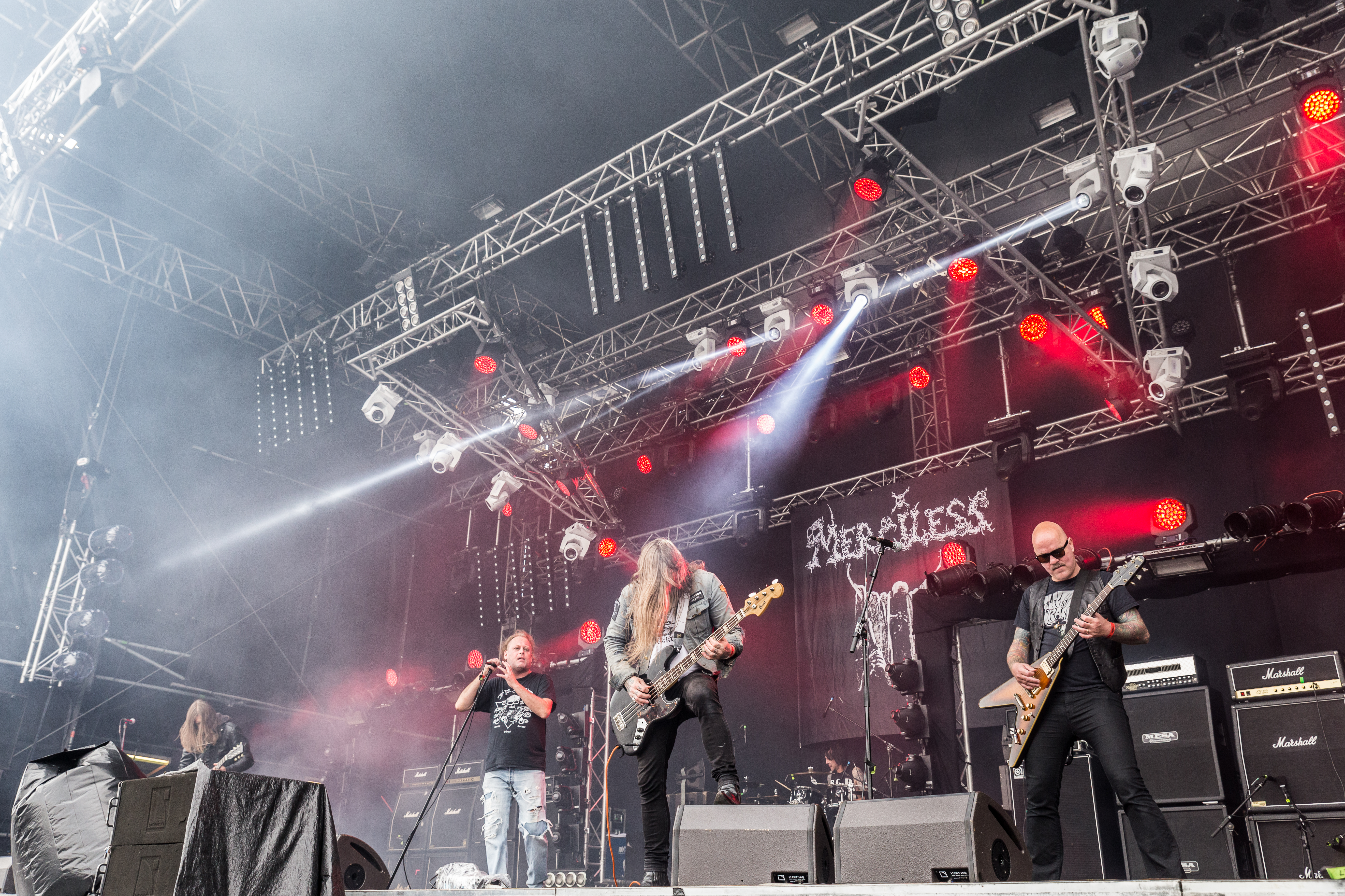 The Swedish death/thrash metal band Merciless at the Party.San Metal Open Air 2017 in Obermehler-Schlotheim/Germany.